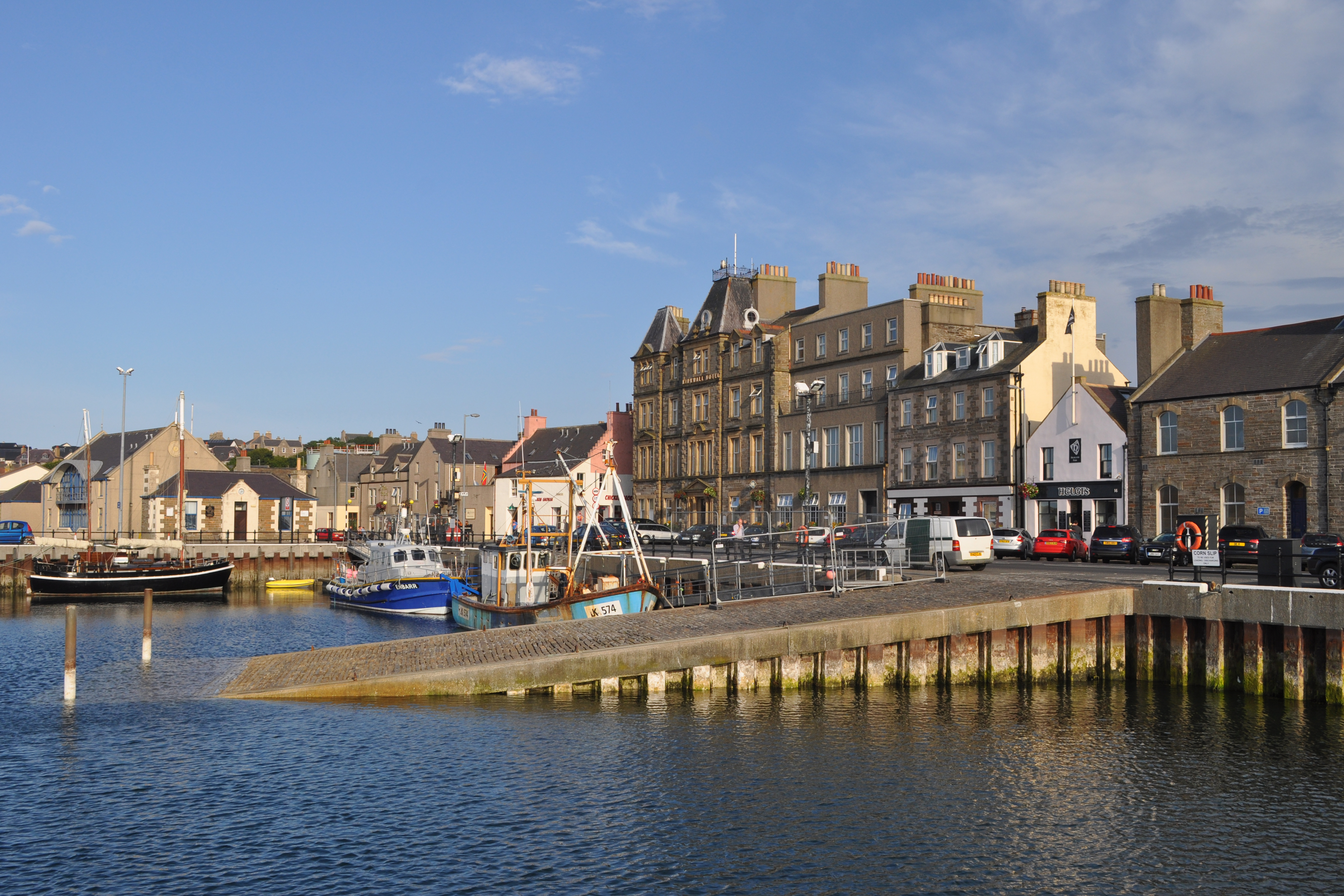 Kirkwall, Harbour Street, Kirkwall Harbour Wikidata has entry Q17827882 with data related to this item.